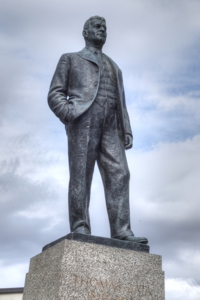 Statue of Thomas Bata by Hermon Cawthra